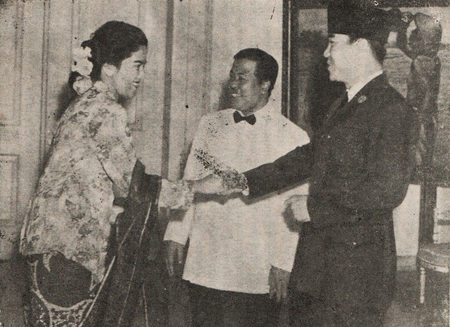 Titien Sumarni with Djamaluddin Malik (center) and President Sukarno (right)